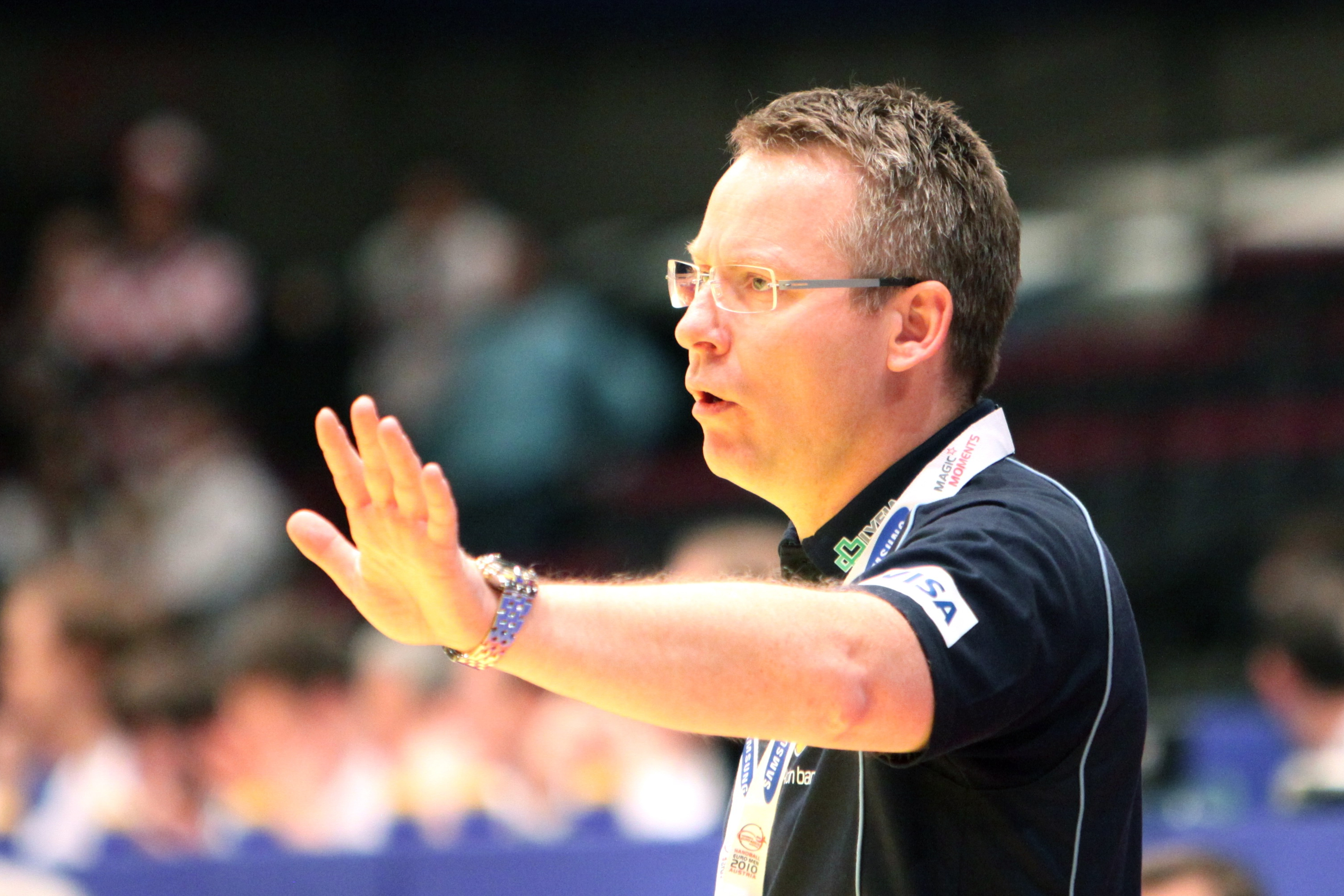 Gudmundur Gudmundsson (Teamchef), Iceland national handball team